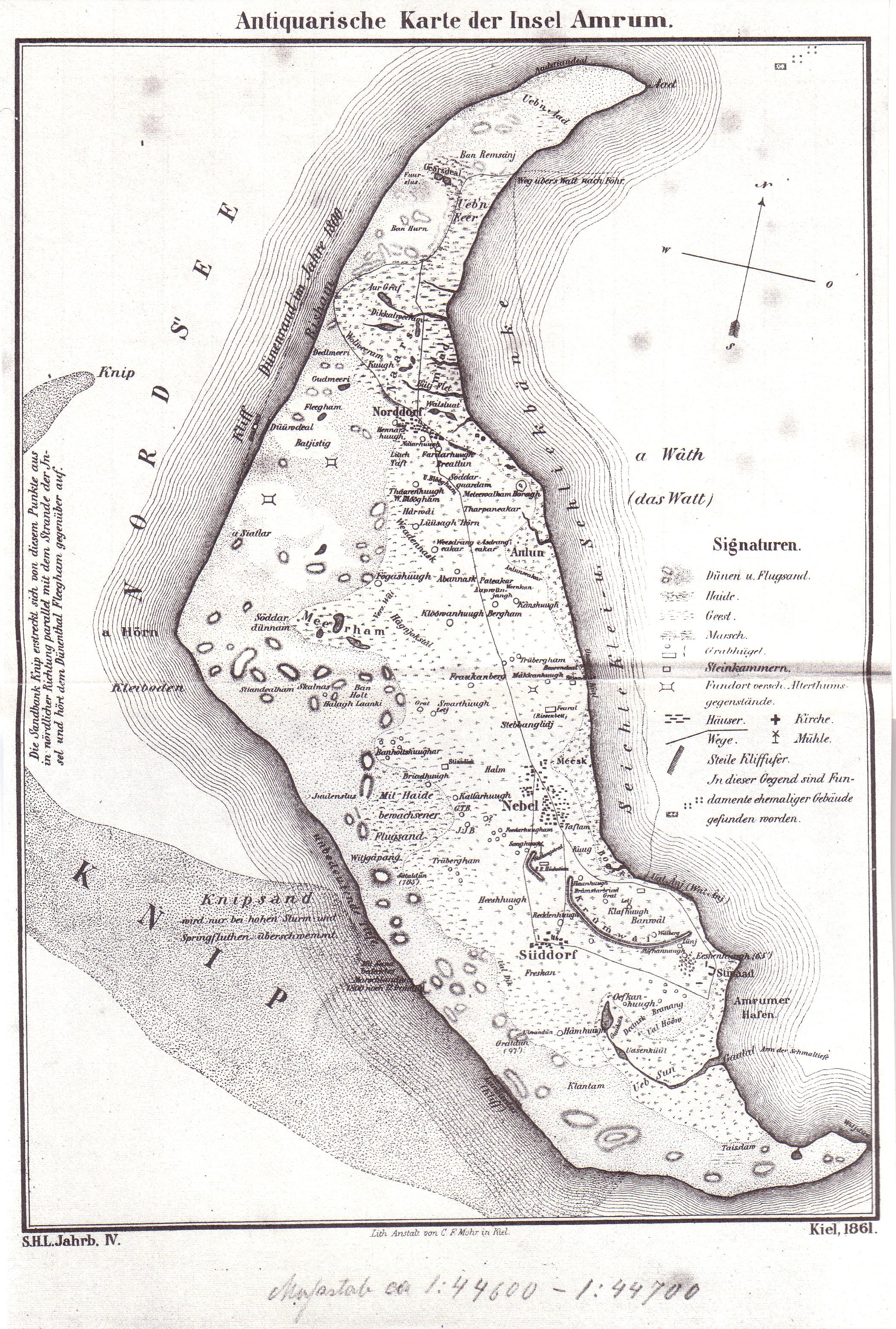 Map of Amrum island, North Frisia, German North Sea coast